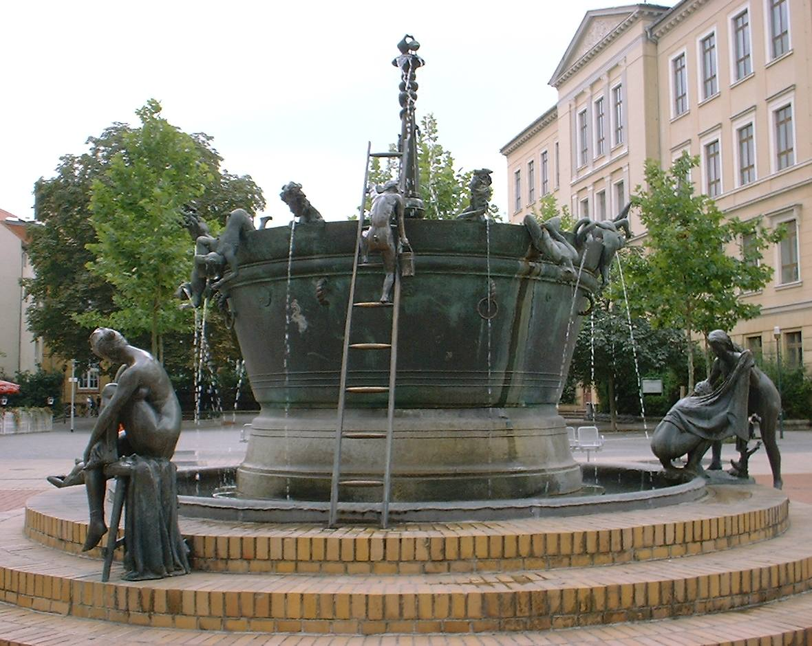 Fountain by Heinrich Apel in Magdeburg in Saxony-Anhalt, Germany